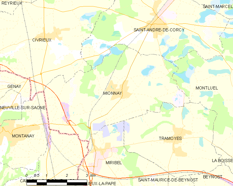 Map of French commune: Mionnay Map commune FR insee code 01248.png